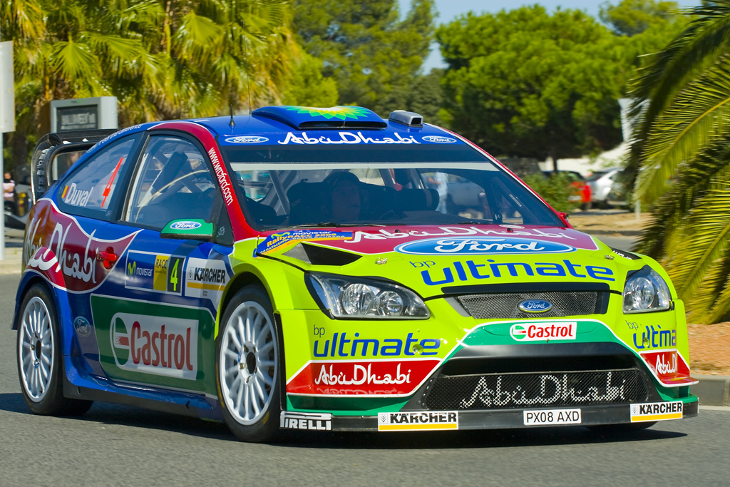 François Duval driving his Ford Focus RS WRC 08 at the 2008 Rally Catalunya.